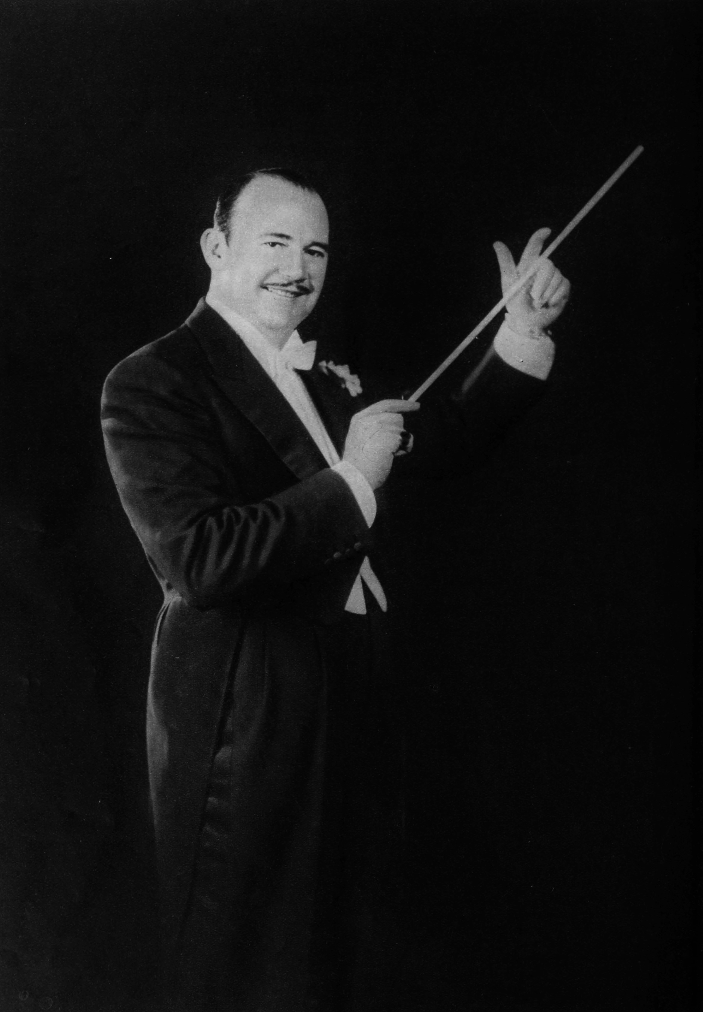 Radio Stars, February 1934